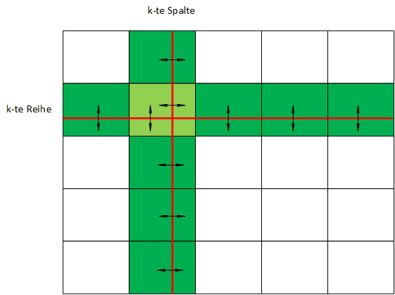 data dependencies in Floyd algorithm